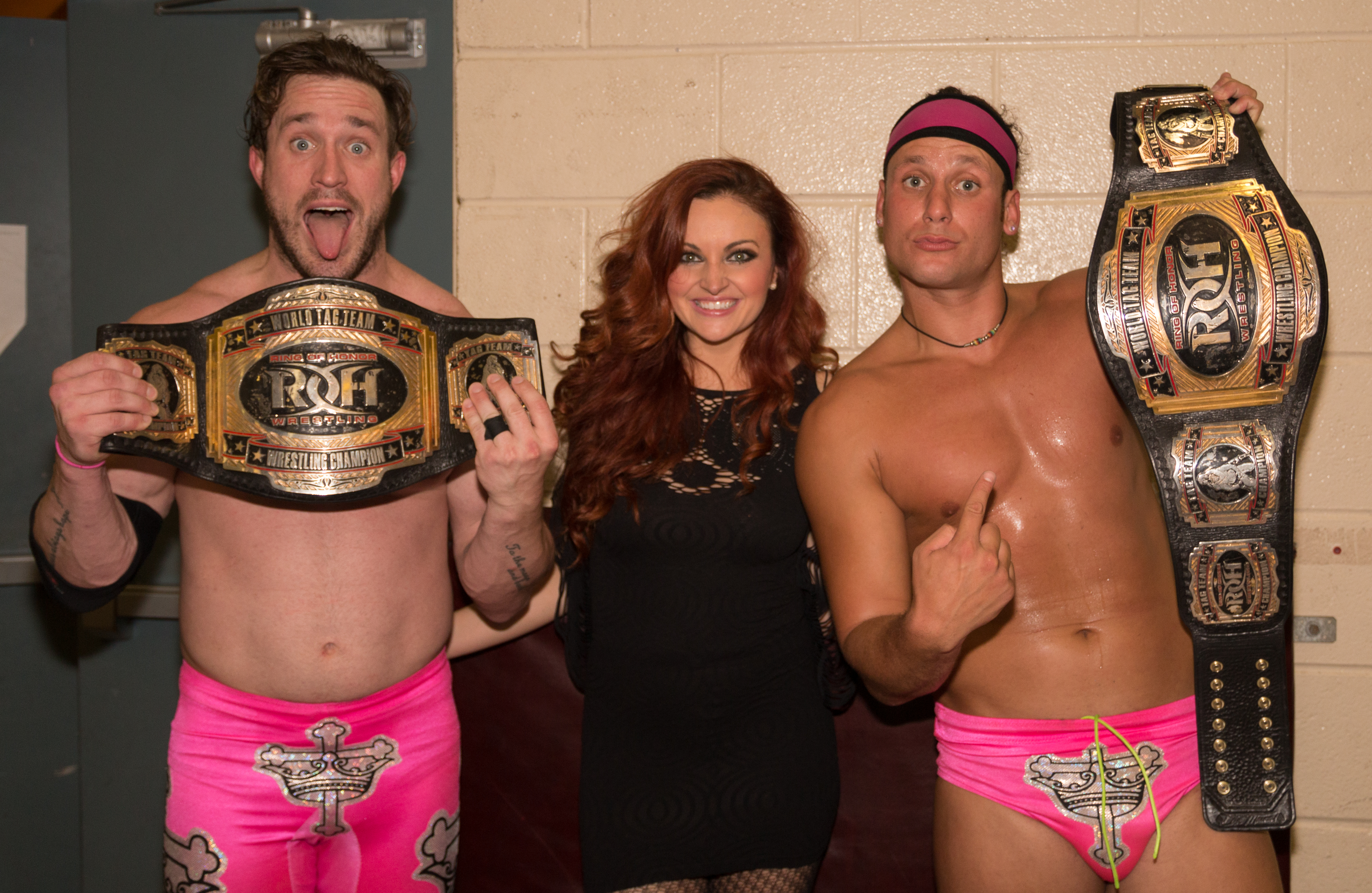 Michael Bennett, Maria Kanellis & Matt Taven (from left) at a Smash Wrestling show in Etobicoke, ON